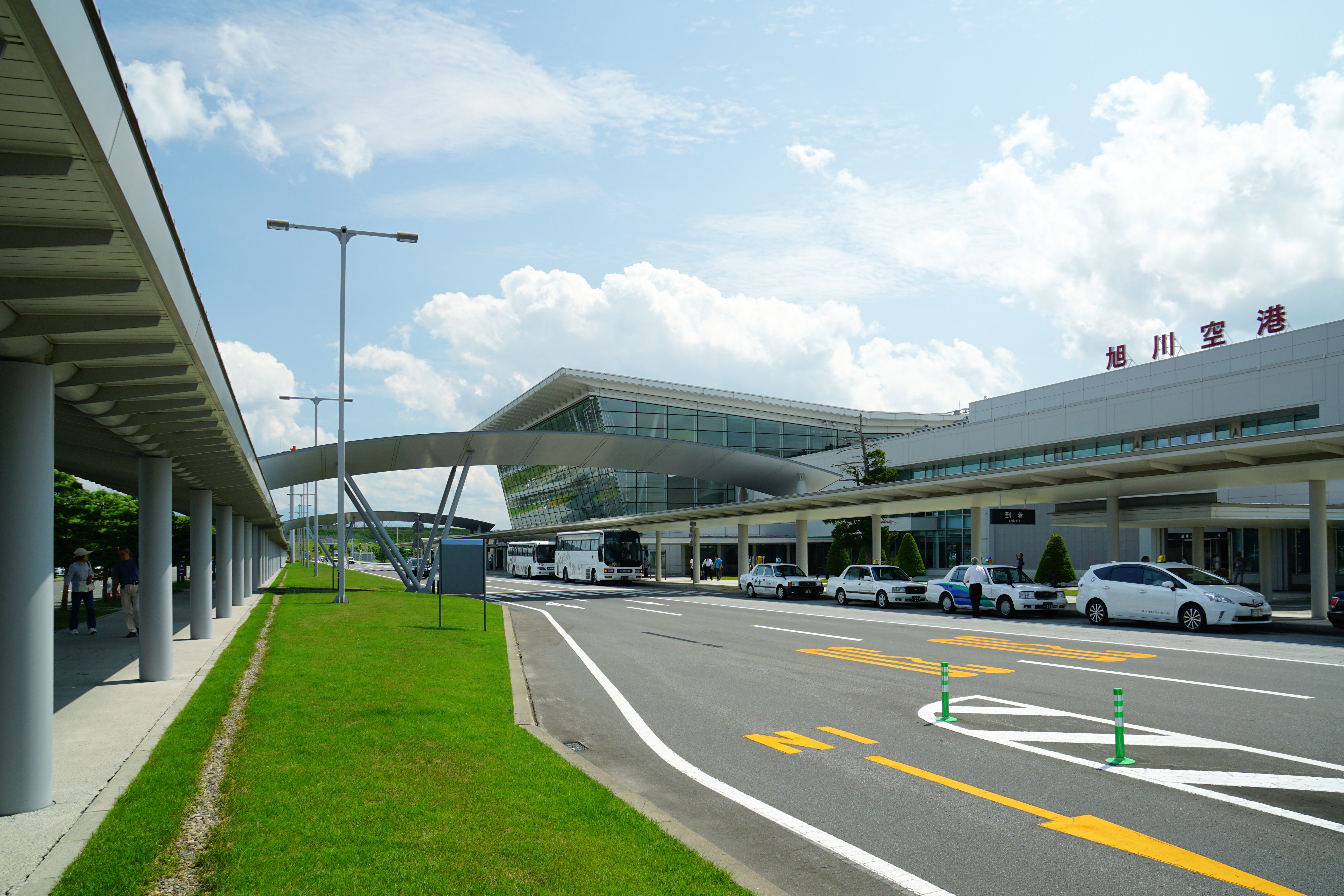 Asahikawa Airport in Asahikawa, Hokkaido prefecture, Japan.